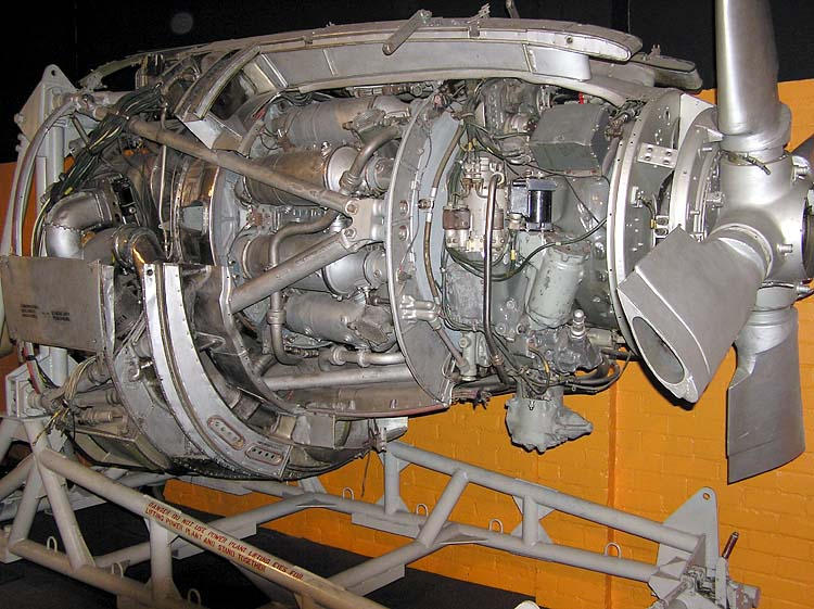 Bristol Proteus engine at Bristol Industrial Museum, Bristol, England.